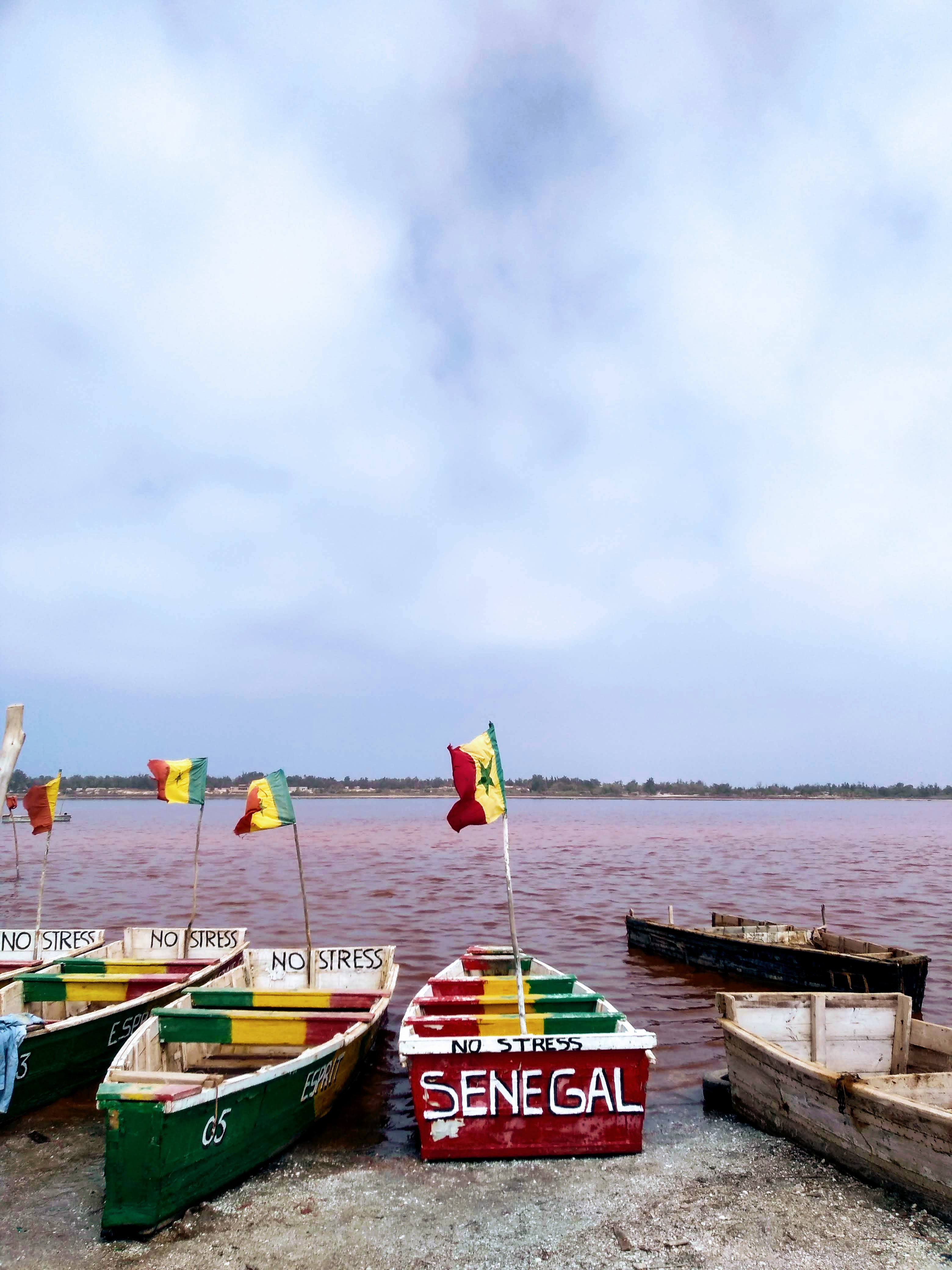 The "Senegal" boats moored on the beach of Lac Rose in Senegal